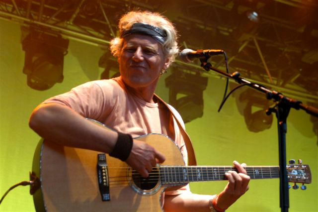 Georg Danzer, performing with Austrian group "Austria 3". Krems, Austria.